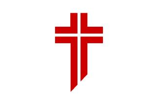 Christian cross, such as the party logo Libanaises Forces, Lebanon